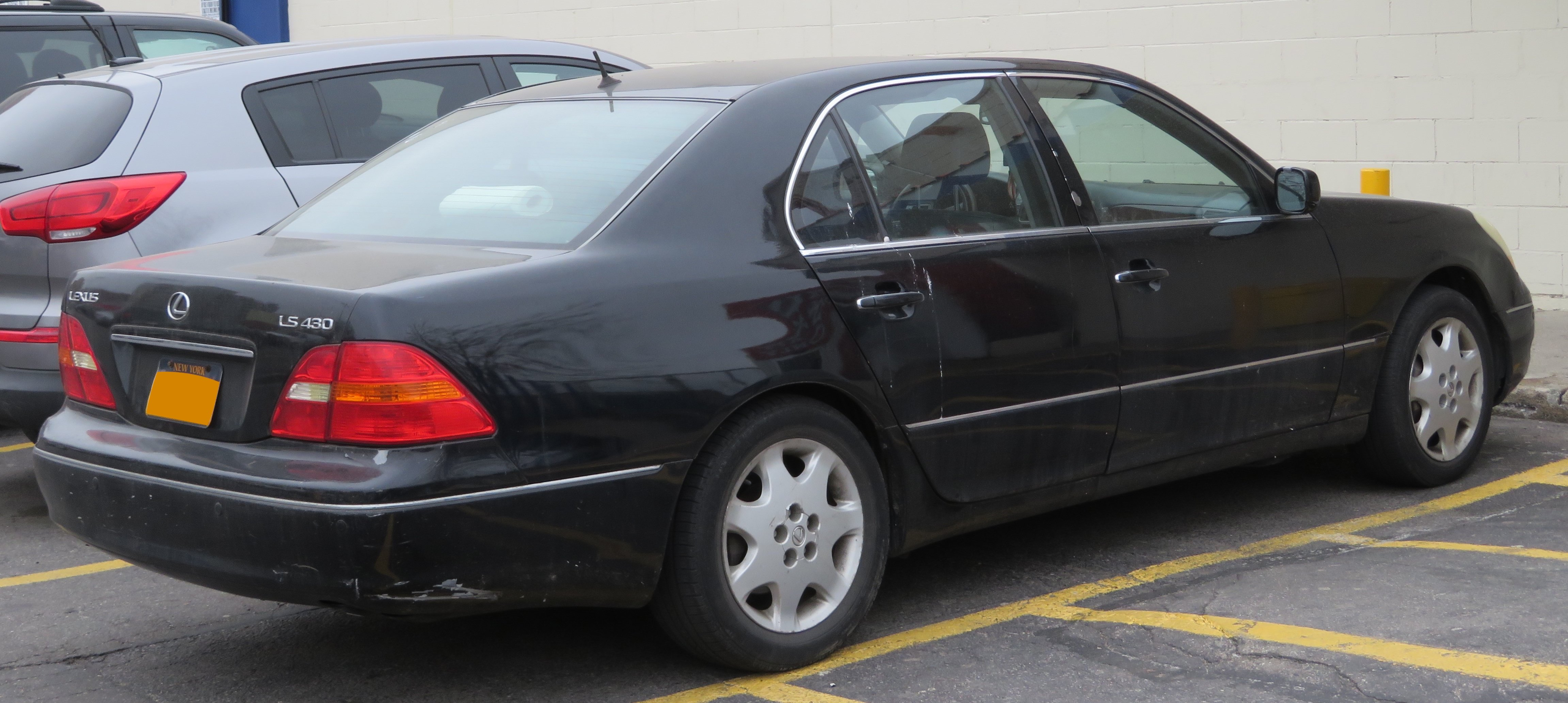 In Queens, New York